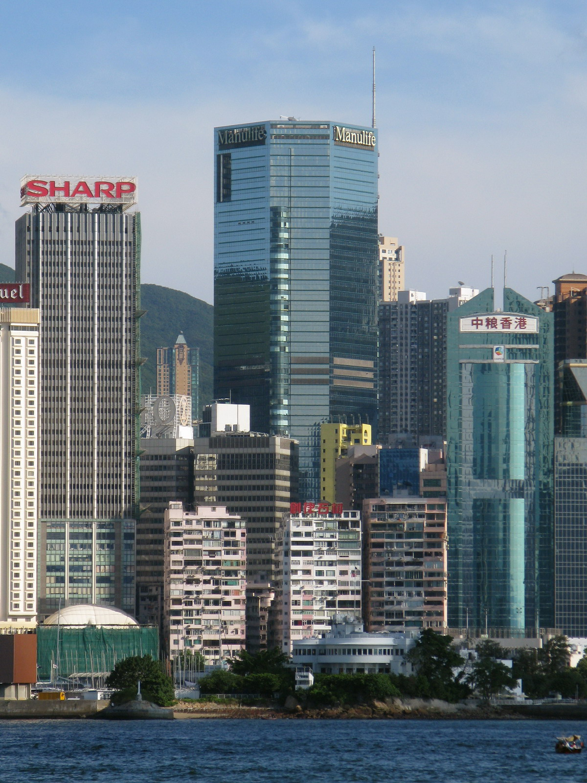 Manulife Plaza, The Lee Gardens